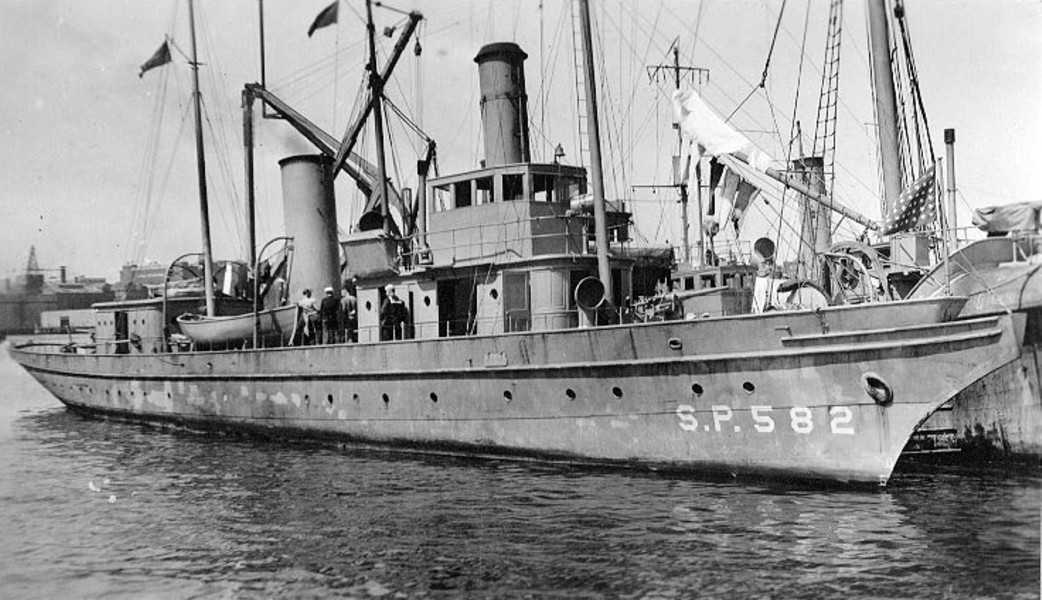 Photo #: NH 42546 USS SP-582 (1917-1919, ex-Halcyon II) Photographed circa 1918-19 at Wakefield, Massachusetts, by Alton H. Blackington, of Boston. U.S. Naval Historical Center Photograph.